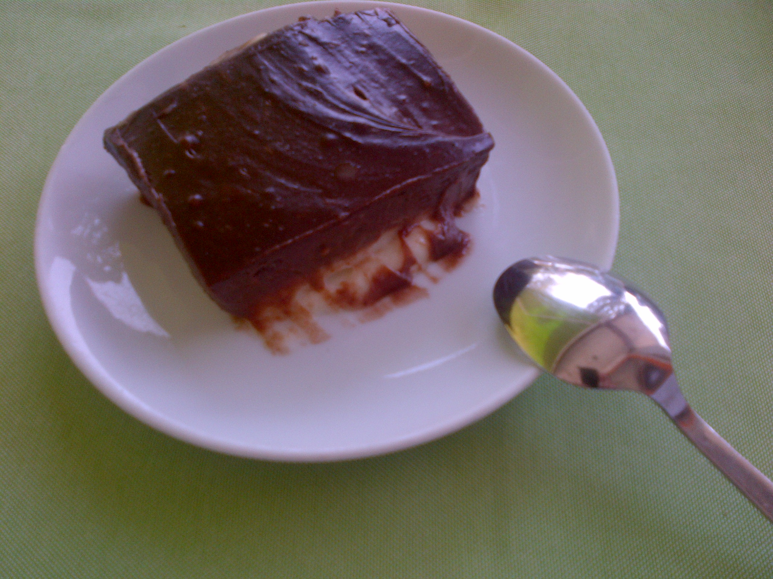 Chocolate muhallebi is a recently developed muhallebi recipe in Turkey.